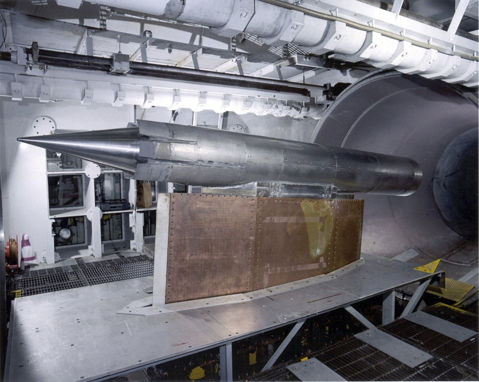 Scramjet, short for supersonic-combustion ramjets, is a jet engine that is powered by oxygen it scoops out of the air as it flies. It will take years of work before scramjets are available for practical uses, but they could eventually revolutionize military strike weapons, space launches and commercial flights.